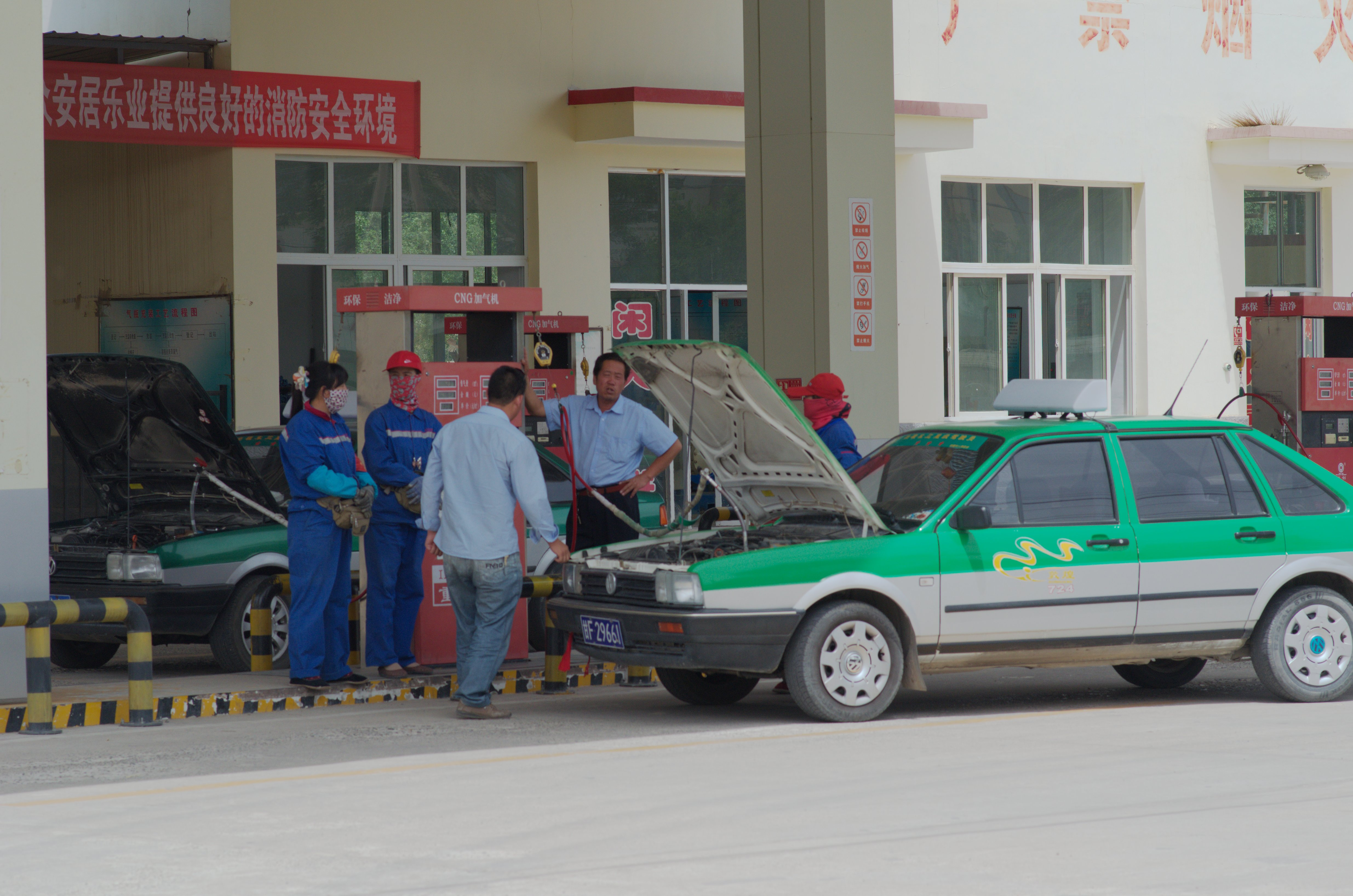 At Dunhuang (敦煌市), Gansu province, China, most taxis use natural gas. Passengers of the taxi must go out of the station during refilling, to avoid problems. Only taxidrivers and station service people are allowed to be in during the refueling.